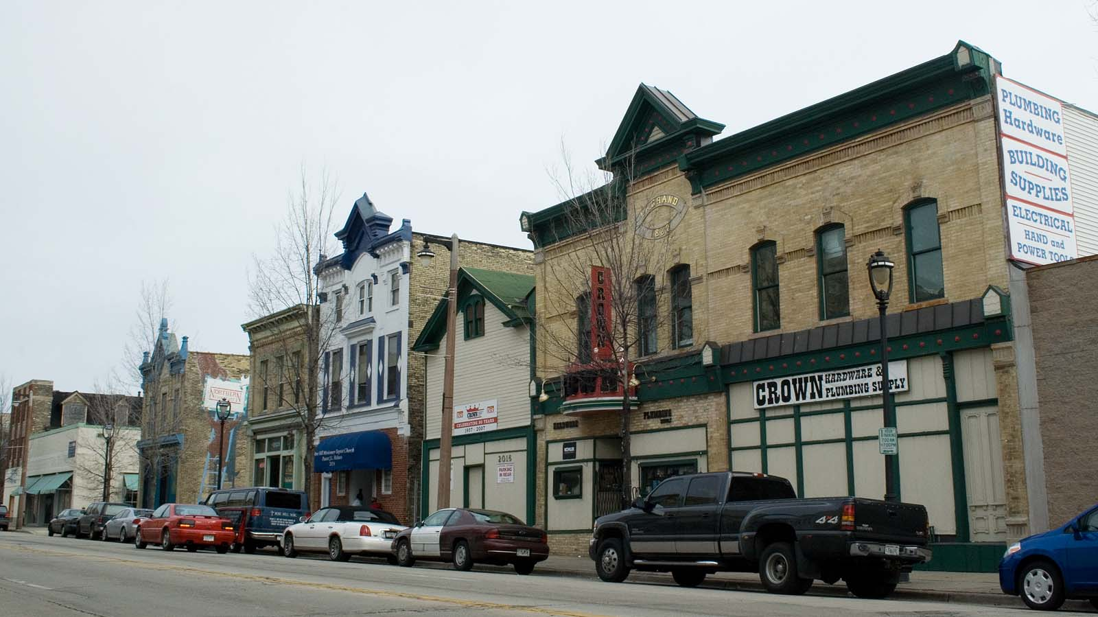 Buildings along the Third Street Historic District. National Register of Historic Places, city of Milwaukee, Wisconsin.